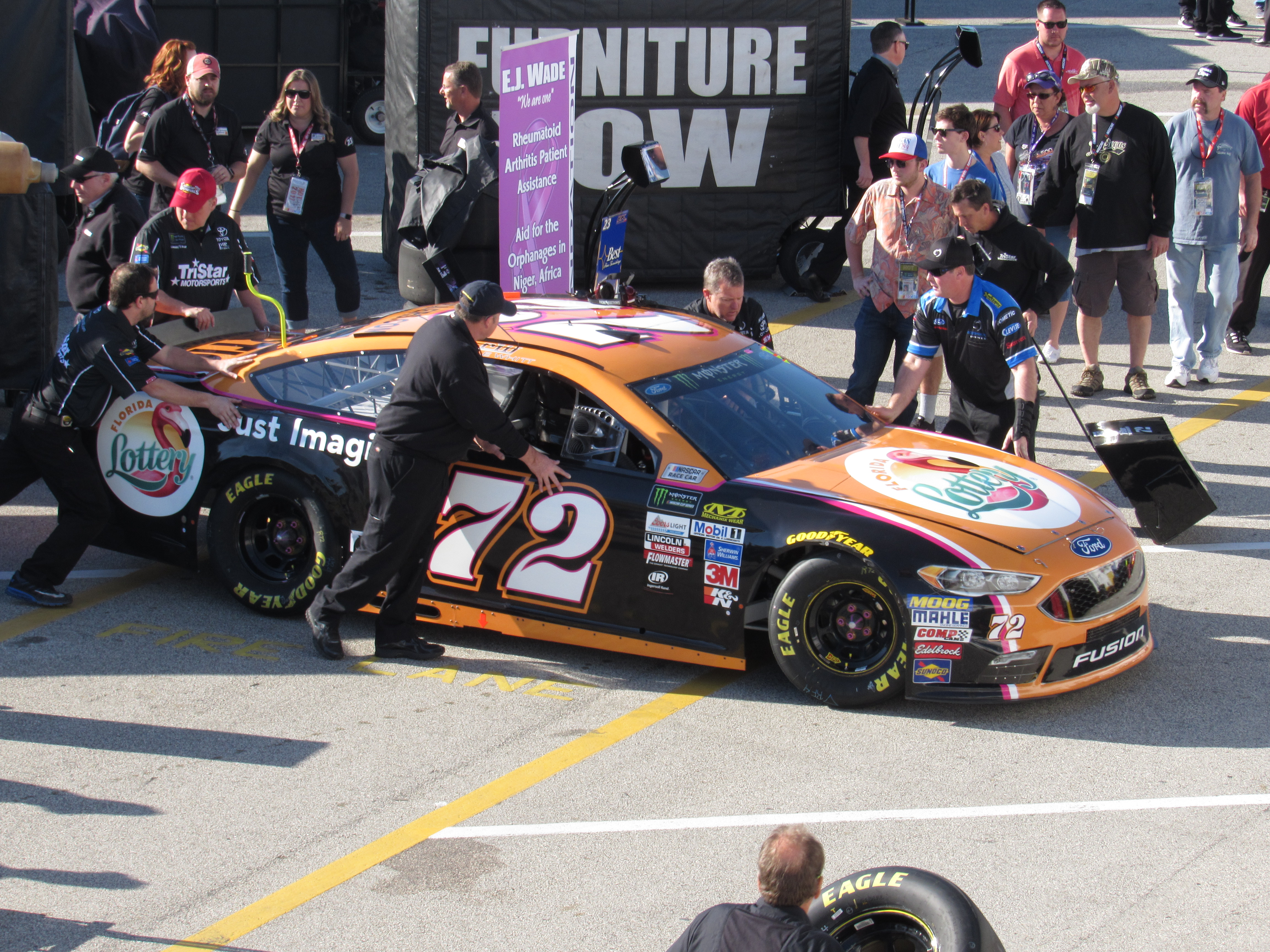 Cole Whitt's No. 72 being pushed through the garage area at Daytona International Speedway.